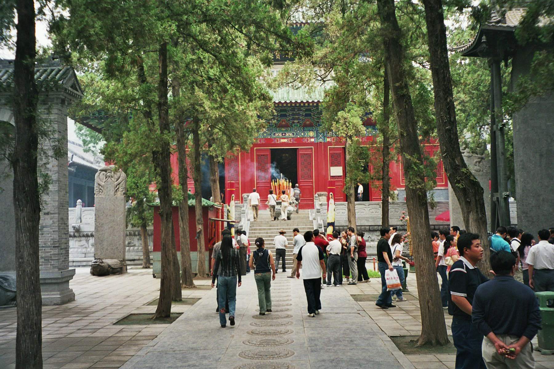 Shaolin Monastery, in september 2006.